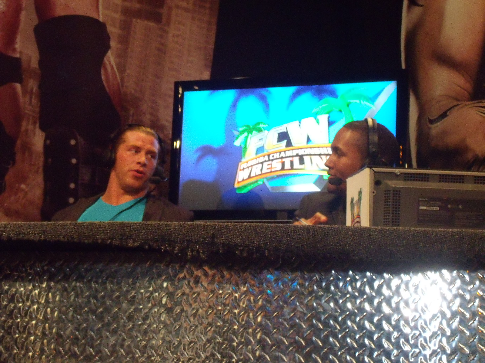 Doing the announcing for the night. 1/21/10.